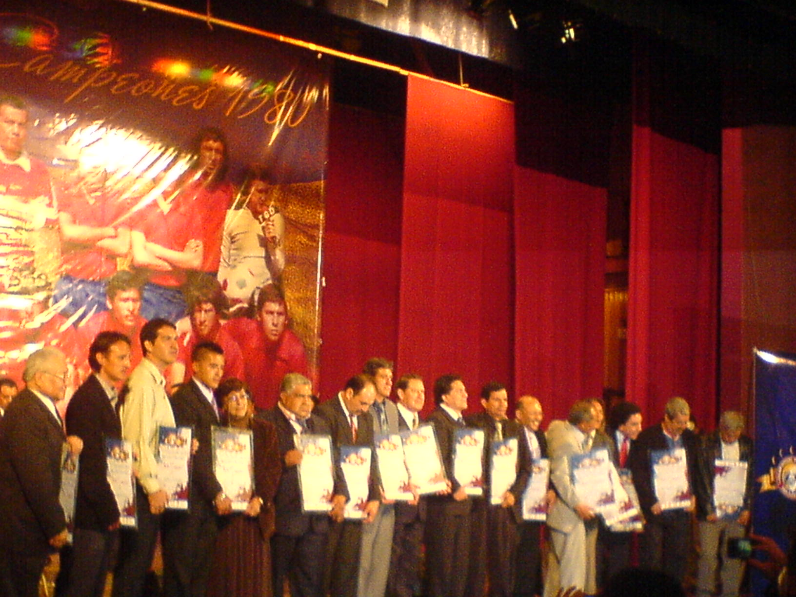 Players of Xelajú mc, Champions guatemalan league 1980.